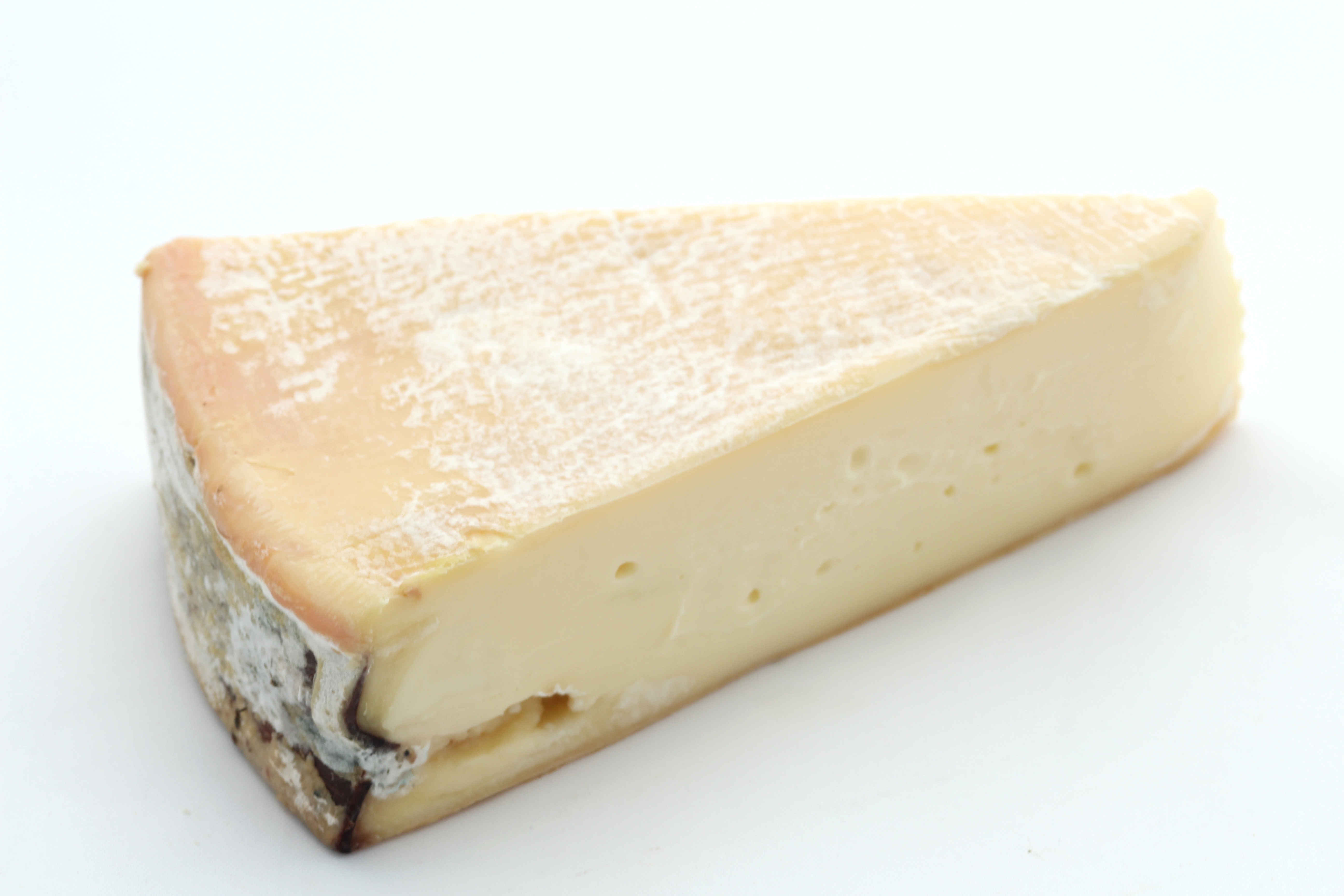 Vacherin Mont d'OR - Swiss soft cheese, from pasteurized cow's milk.